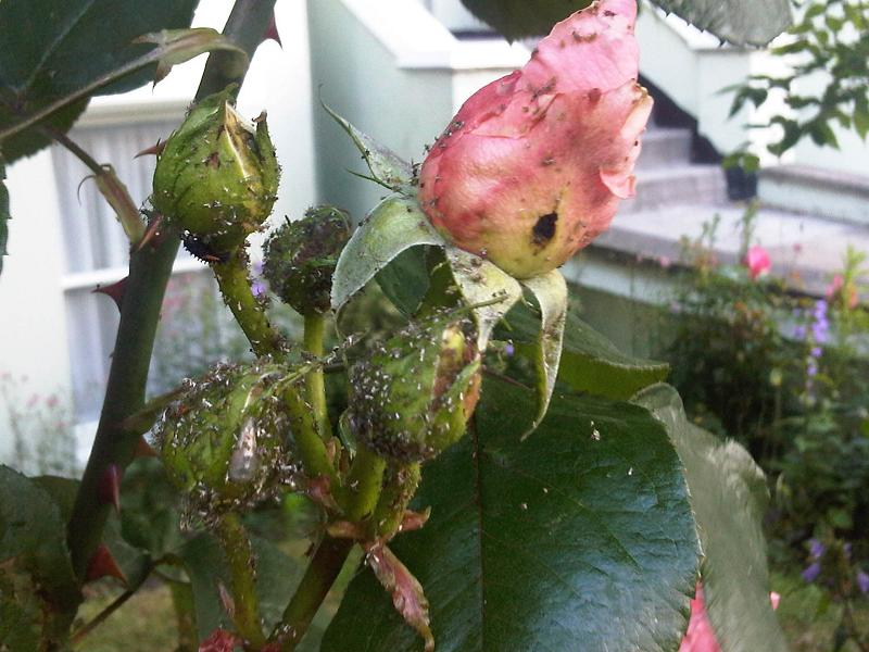 Rose (Rosa sp.) buds infested with Macrosiphum rosae in London, England.